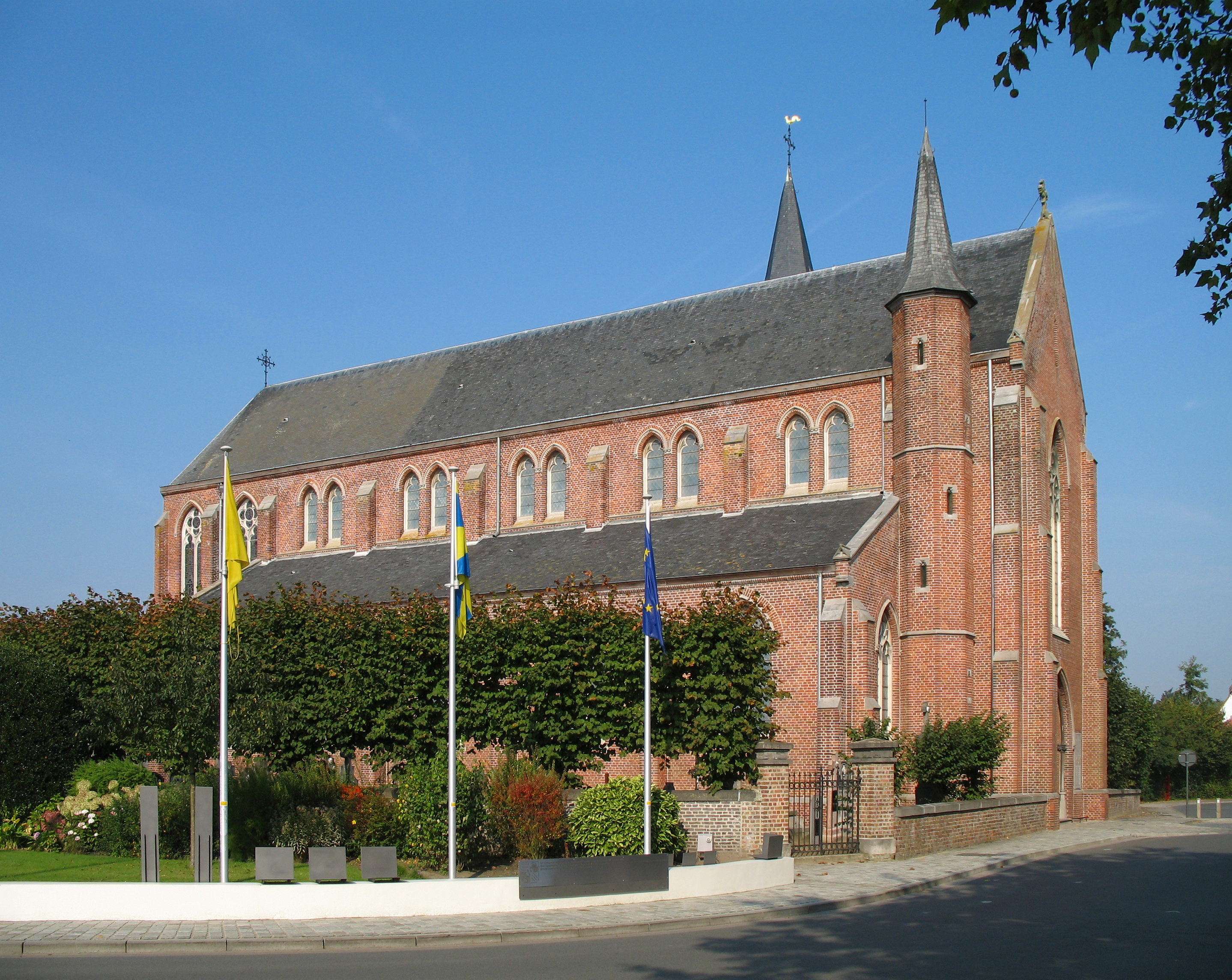 Snellegem (municipality of Jabbeke, province of West Flanders, Belgium): St Eligius church, built 1890-1892 in Gothic revival style